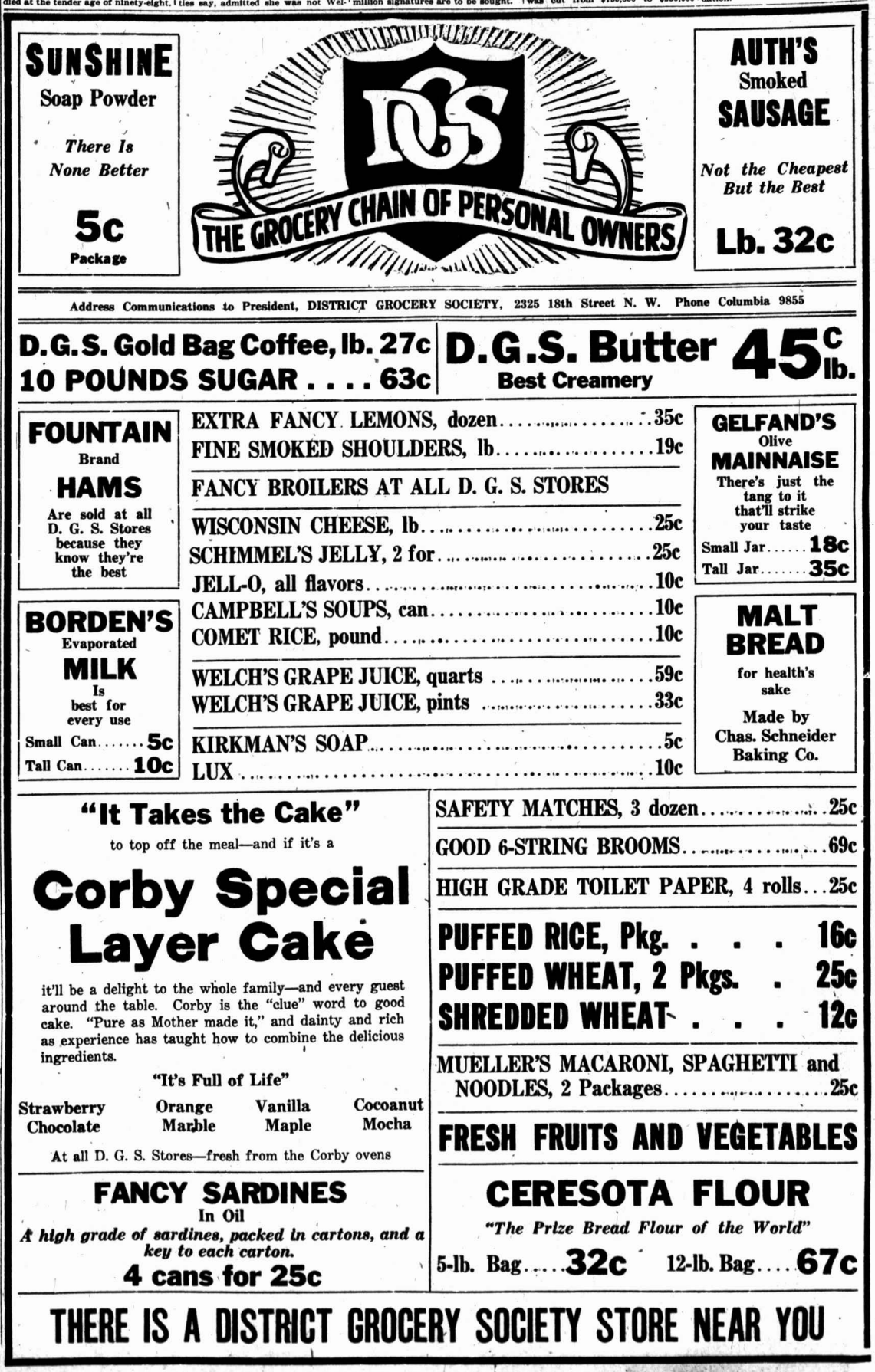 District Grocery Stores Advertisement in The Washington Times (Washington, DC) from June 13, 1922